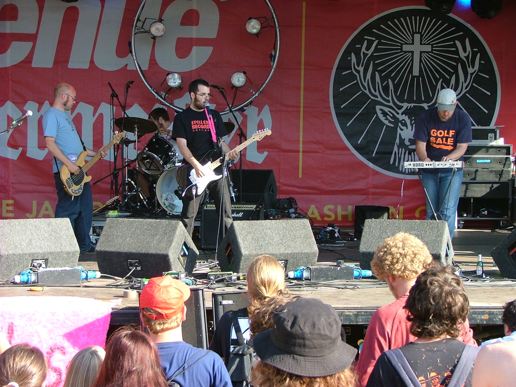 Steveless plays Ashton Court Festival 2005